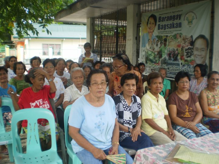 community meeting